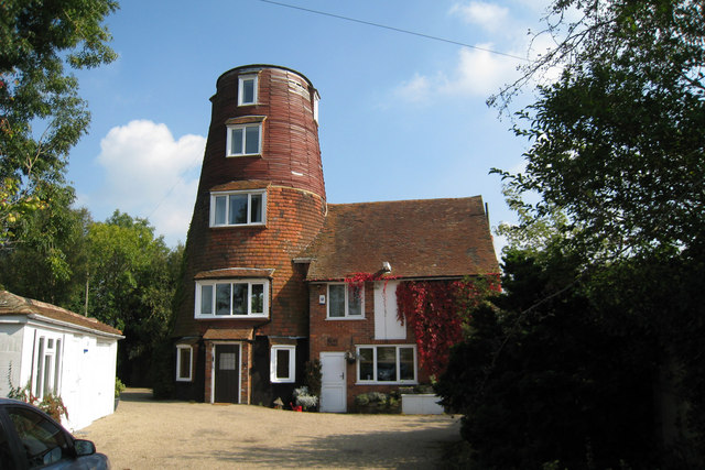 The converted windmill at Mark Cross, Sussex